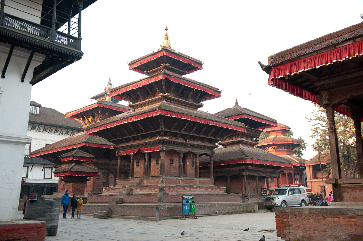 Durbar square, Kathmandu, Nepal